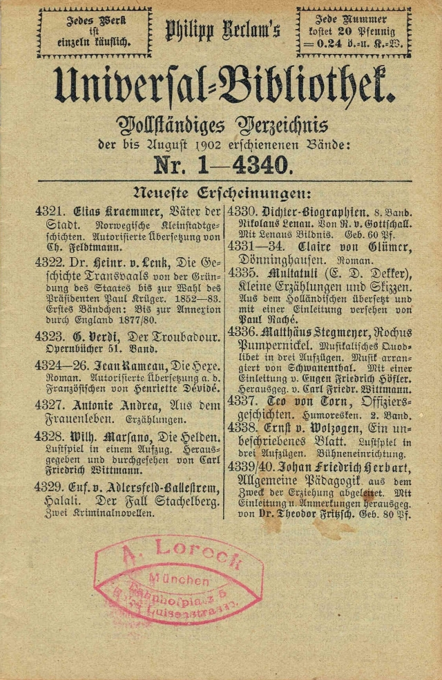 Reclam Verlag, Germany: Publishing house catalogue dating from 1902.